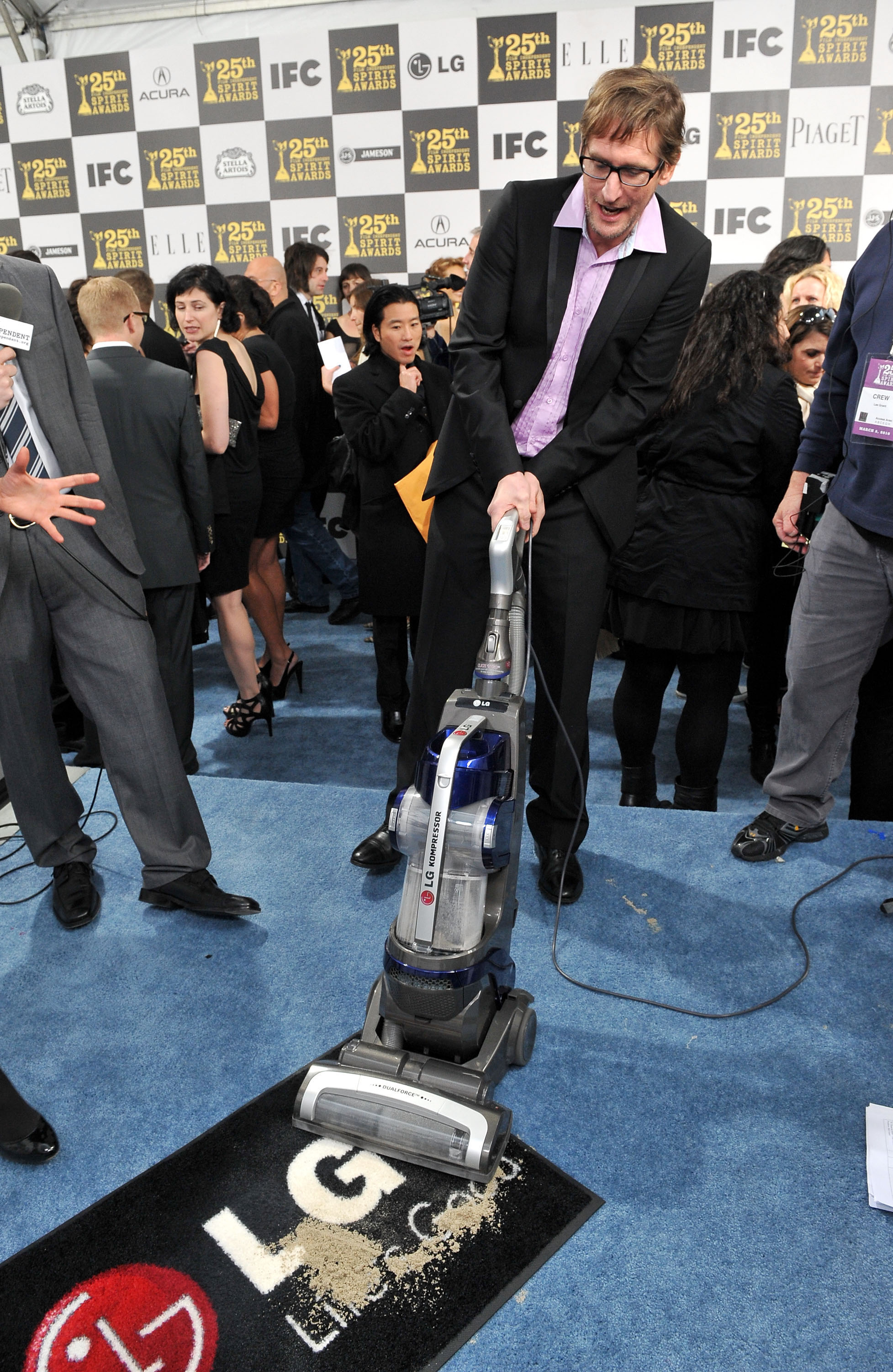 Actor Ray McKinnon with the LG Electronics Kompressor Vacuum on The 25th Spirit Awards Blue Carpet held at Nokia Theatre L.A. Live on March 5, 2010 in Los Angeles, California. Stars Take on Charitable Chore with LG Electronics Kompressor Vacuum on The 25th Spirit Awards Blue Carpet Nokia Theatre L.A. Live Los Angeles, CA United States March 5, 2010 Photo by George Pimentel/WireImage.com